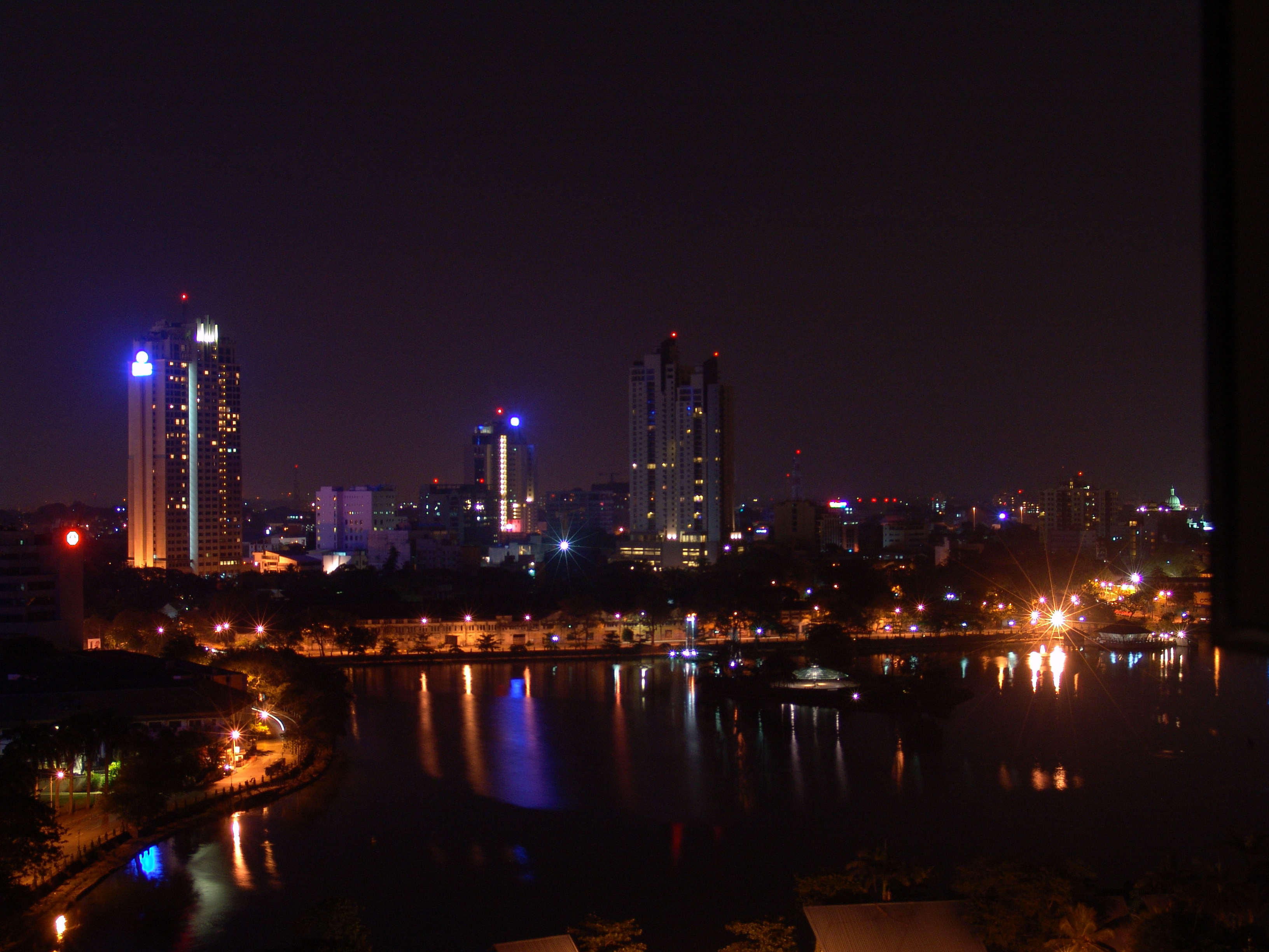 Colombo, the commercial capital of Sri Lanka at night, seen across the Beira Lake.